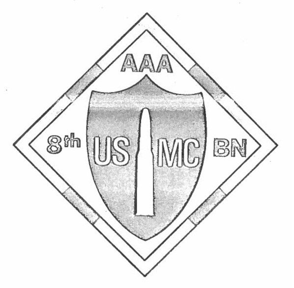 This insignia was taken from a reunion pamphlet of the 8th AAA Bn from the early 1980s.